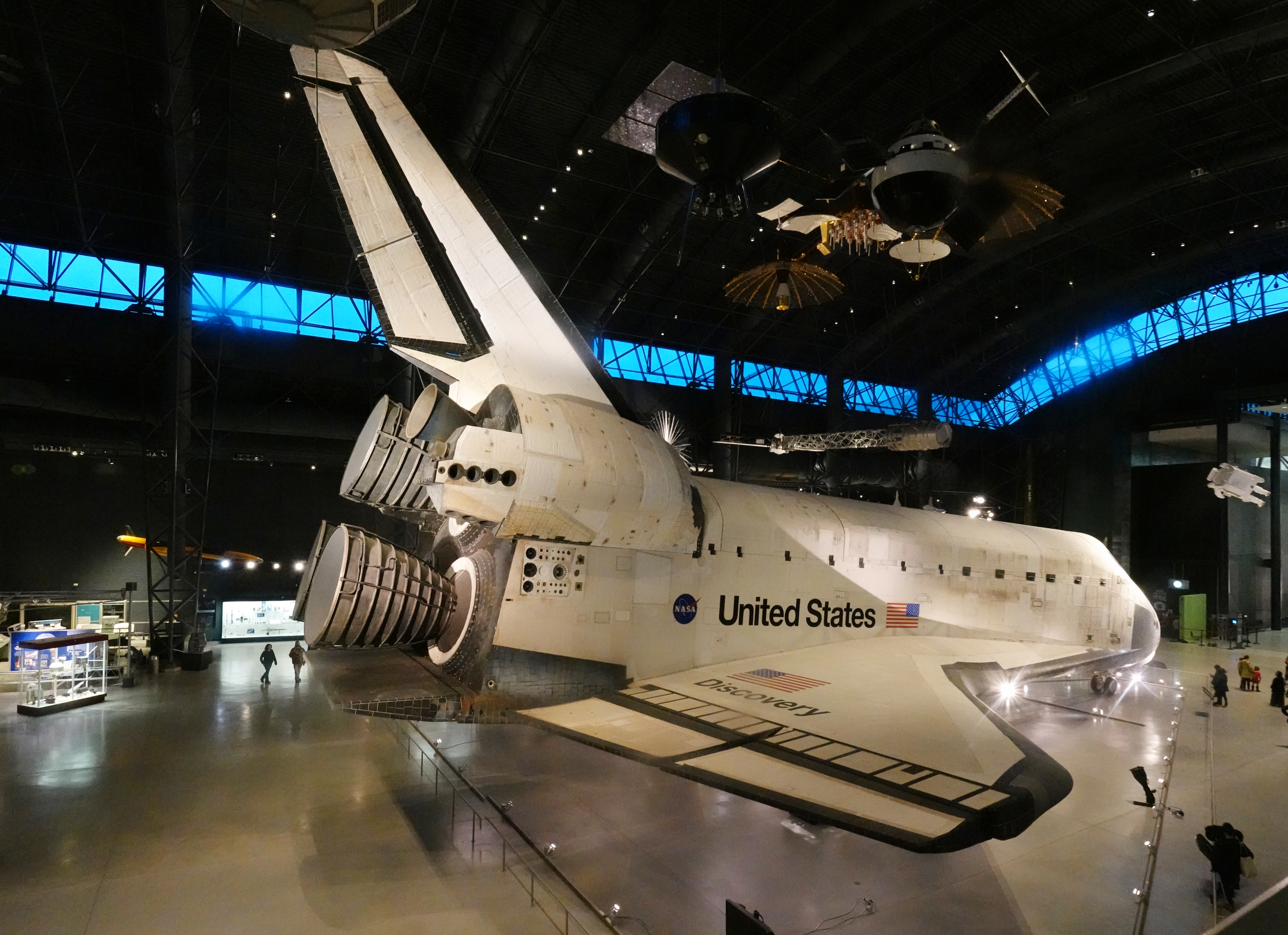 Picture of the Space Shuttle Discovery taken at the National Air and Space Museum's Steven F. Udvar-Hazy Center in Chantilly, Virginia, USA.